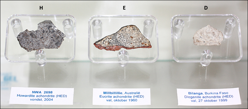 An example of (from left to right) a Howardite, Eucrite and Diogenite meteorite: the H-E-D in the HED meteorites group. They are believed to be samples from asteroid (4) Vesta, representing the surface breccia (H), surface basalt flow (E) and deeper plutonics from deep in a magma chamber (D).